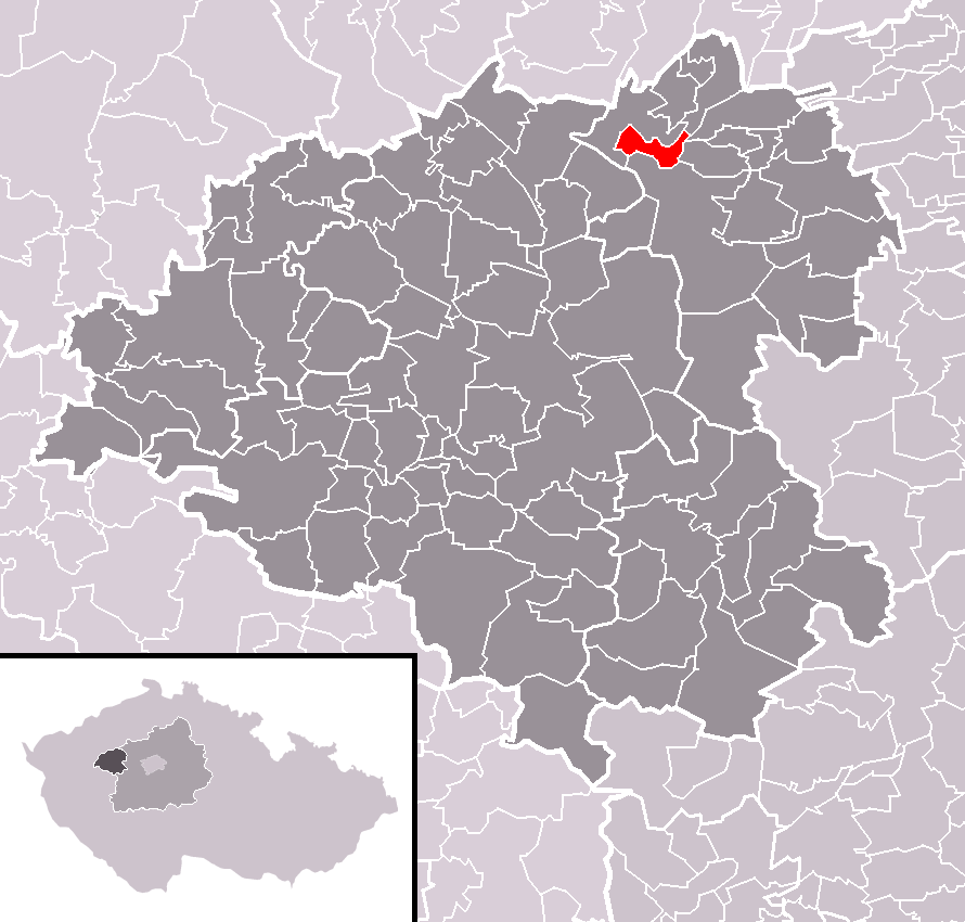 Location of Kroučová municipality within Rakovník District and (identical) administrative area of Rakovník as a Municipality with Extended Competence.